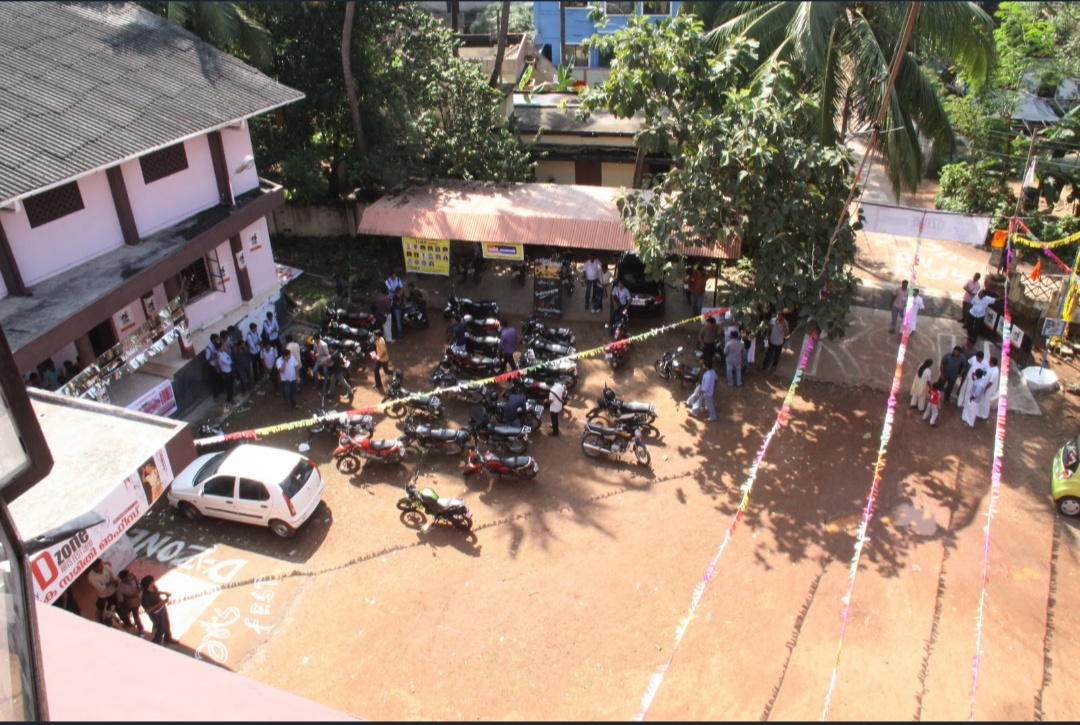 Glc thrissur